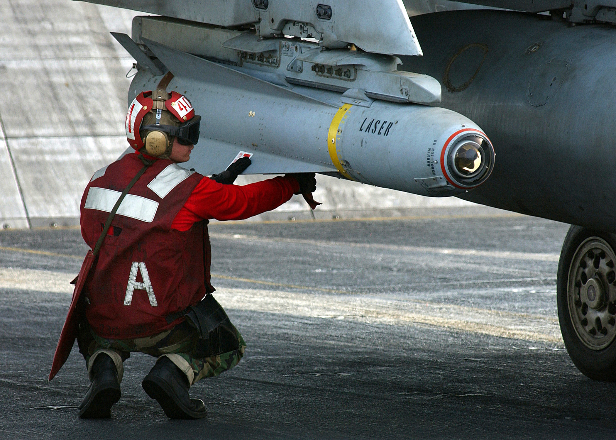 Persian Gulf (Nov. 28, 2004) - Aviation Ordnanceman 3rd Class William Miller, assigned to the “Gunslingers” of Strike Fighter Squadron One Zero Five (VFA-105), arms a AGM-65 Maverick laser-guided missile loaded on an F/A-18 Hornet prior to launch from the flight deck of the Nimitz-class aircraft carrier USS Harry S. Truman (CVN 75). The AGM-65 Maverick is an air-to-surface tactical missile designed for close air support, interdiction and defense suppression. It is effective against a wide range of tactical targets, including armor, air defenses, ships, ground transportation and fuel storage facilities. Truman's Carrier Strike Group Ten (CSG-10) and her embarked Carrier Air Wing Three (CVW-3) are currently on a scheduled deployment in support of the Global War on Terrorism. U.S. Navy photo by Photographer’s Mate Airman Kristopher Wilson (RELEASED)